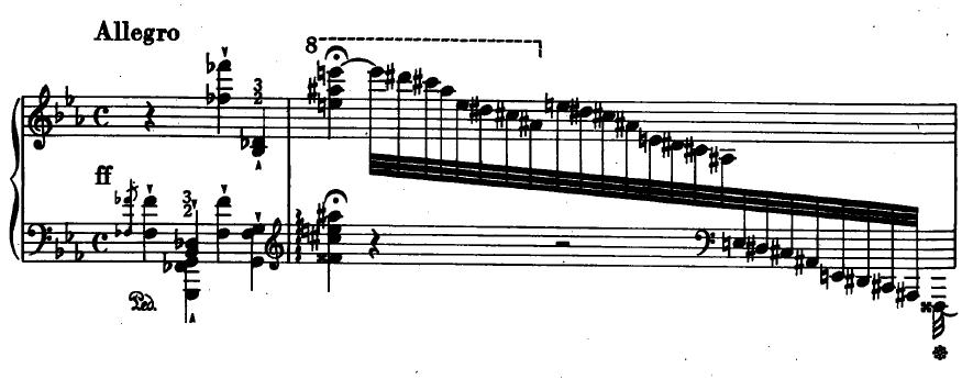 Beginning of the Transcendental Étude No. 7, "Eroica", by Franz Liszt.